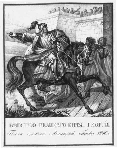 Flight of Yuri II of Vladimir